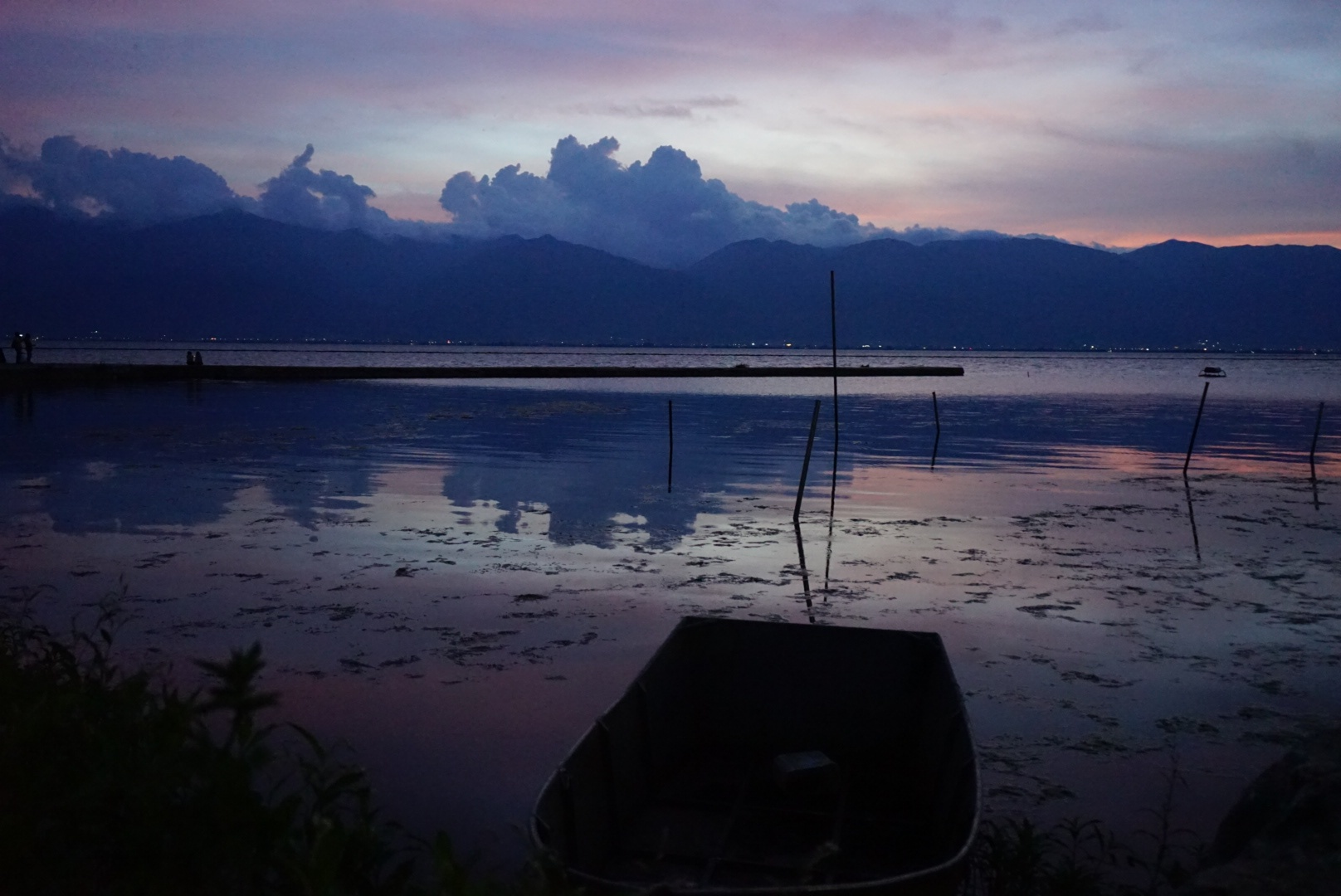 shot on the late evening